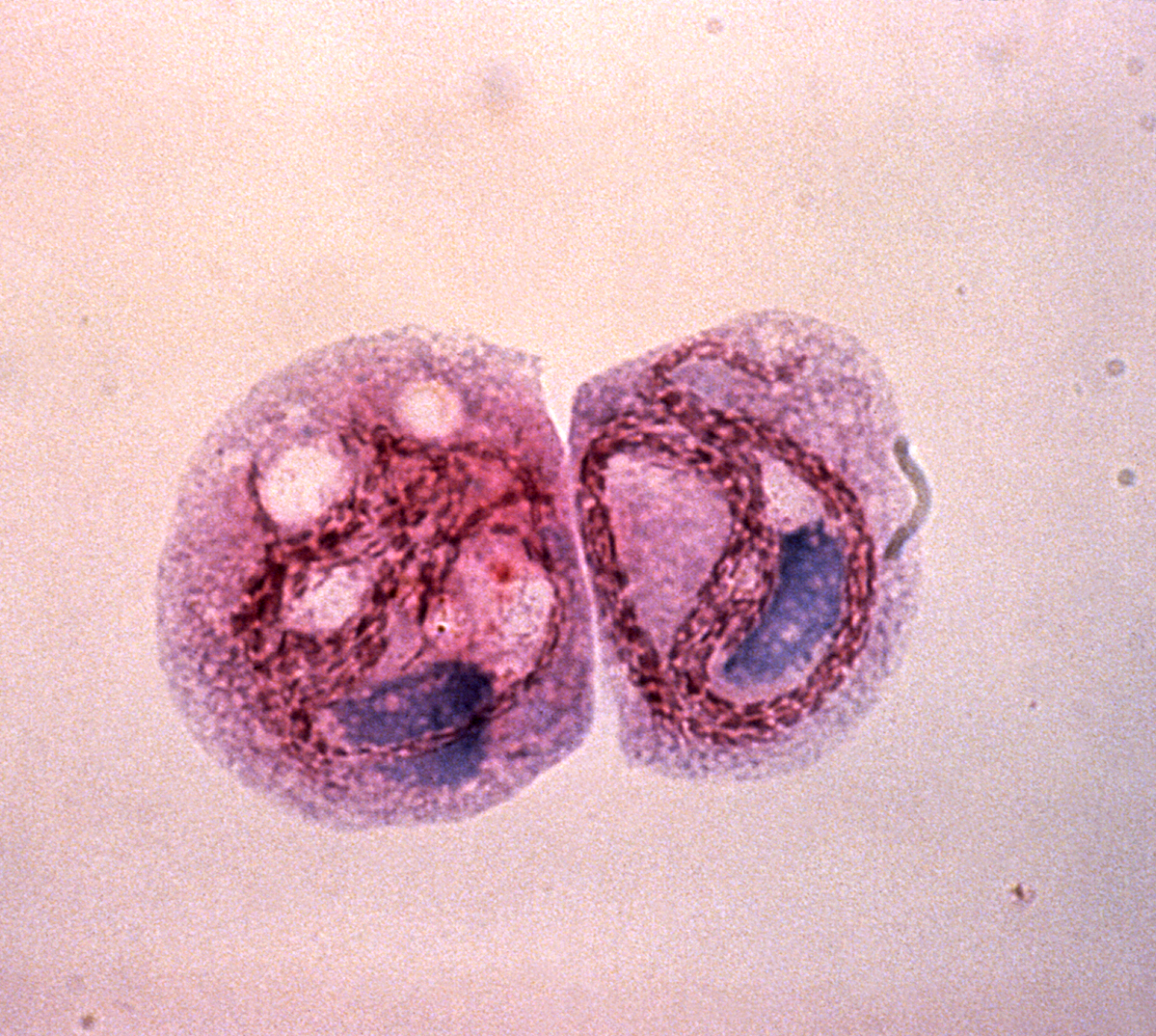 From the PHIL description: "This micrograph depicts two ciliated Tetrahymena pyriformis protozoa containing red chains of intracellular Legionella pneumophila bacteria that are undergoing multiplication."